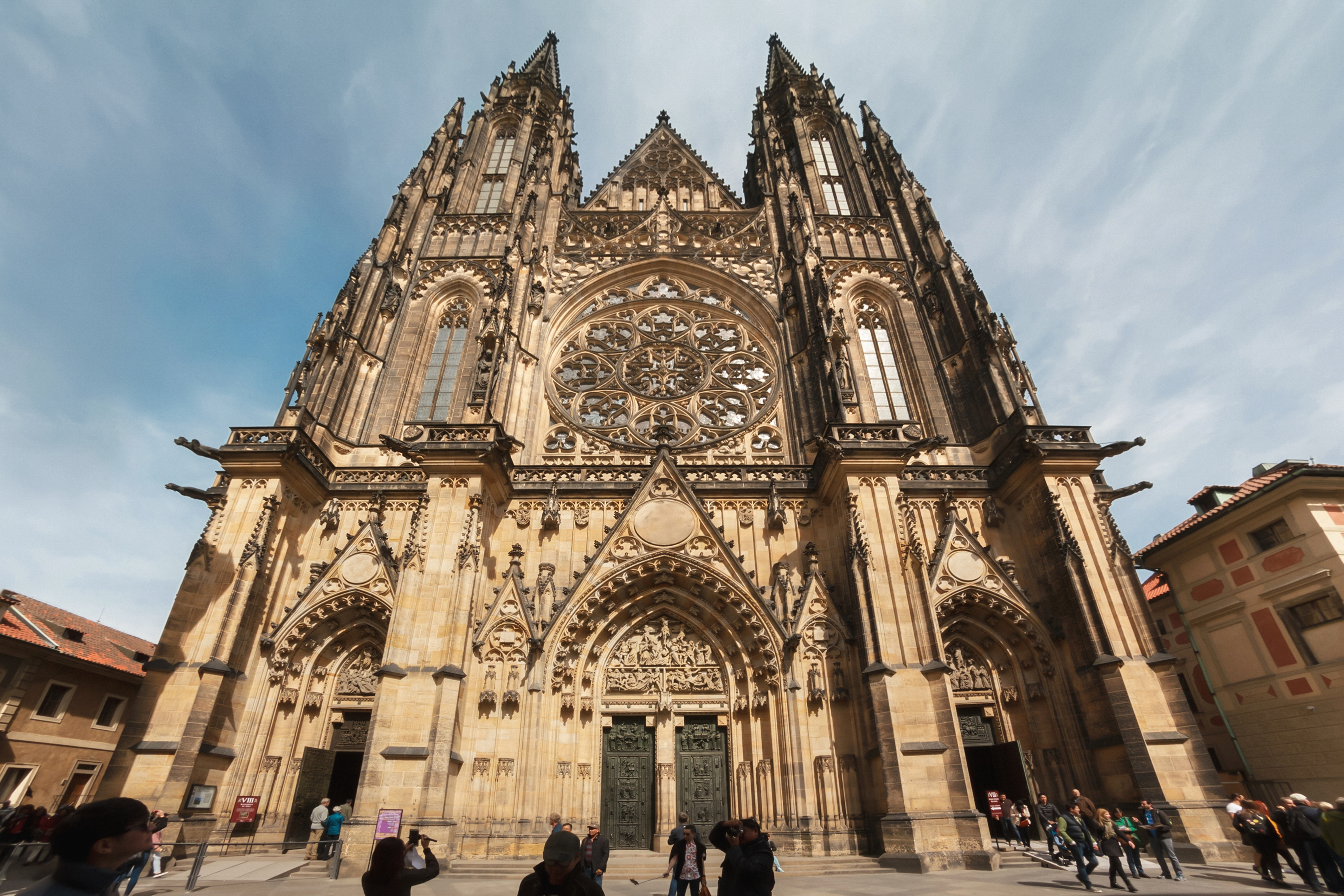 Front facade of St. Vitus Cathedral